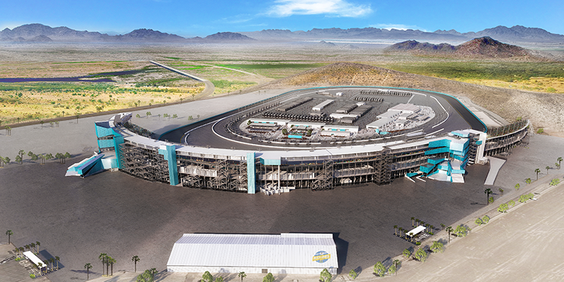 New Phoenix Raceway Rendering